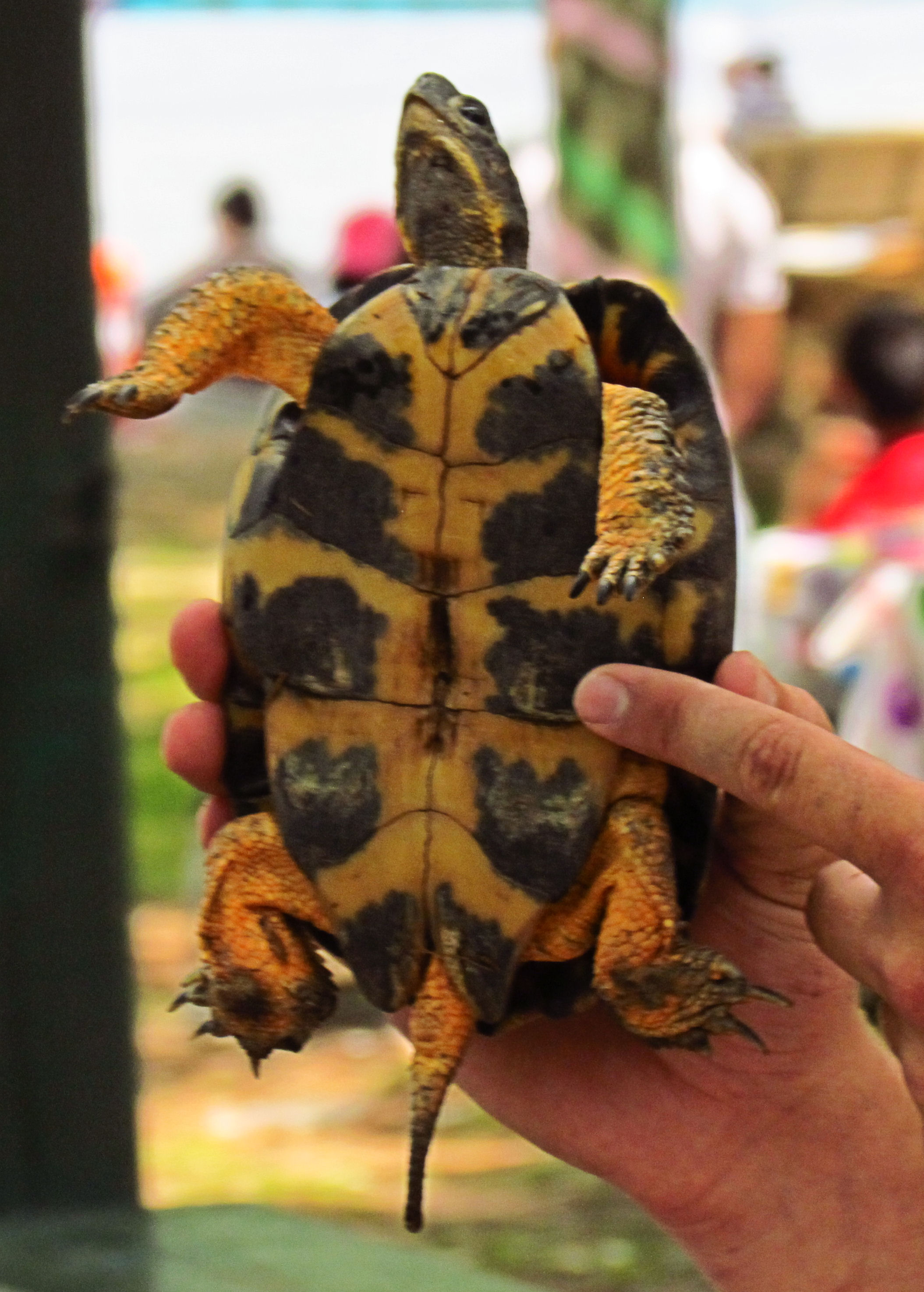 Wood Turtle (Glyptemys insculpta), male, plastron